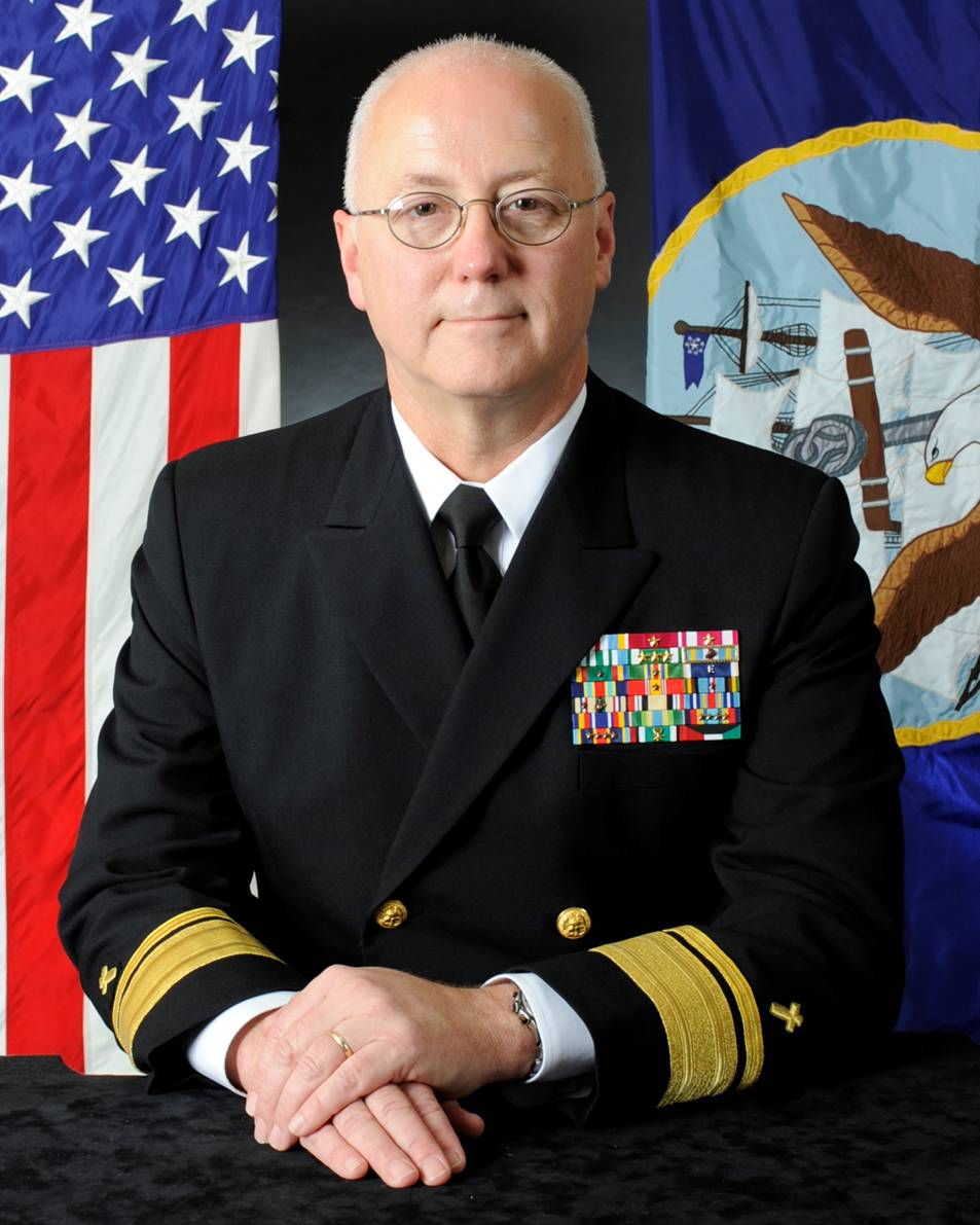 Rear Admiral Mark L. Tidd Chaplain Corps Chief of Navy Chaplains